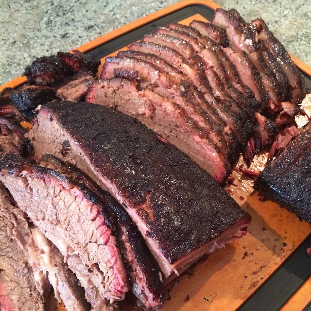 Friend's BBQ tasting party with the star of the show: Franklin BBQ Brisket. Tastes best without sauce or with Rudy's BBQ sauce IMHO.